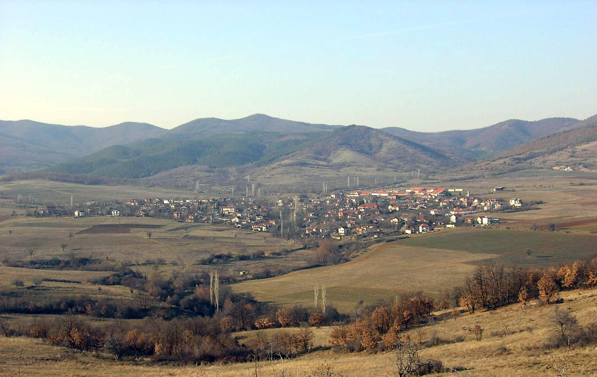 Village Lozen, Stara Zagora District, Bulgaria. General view